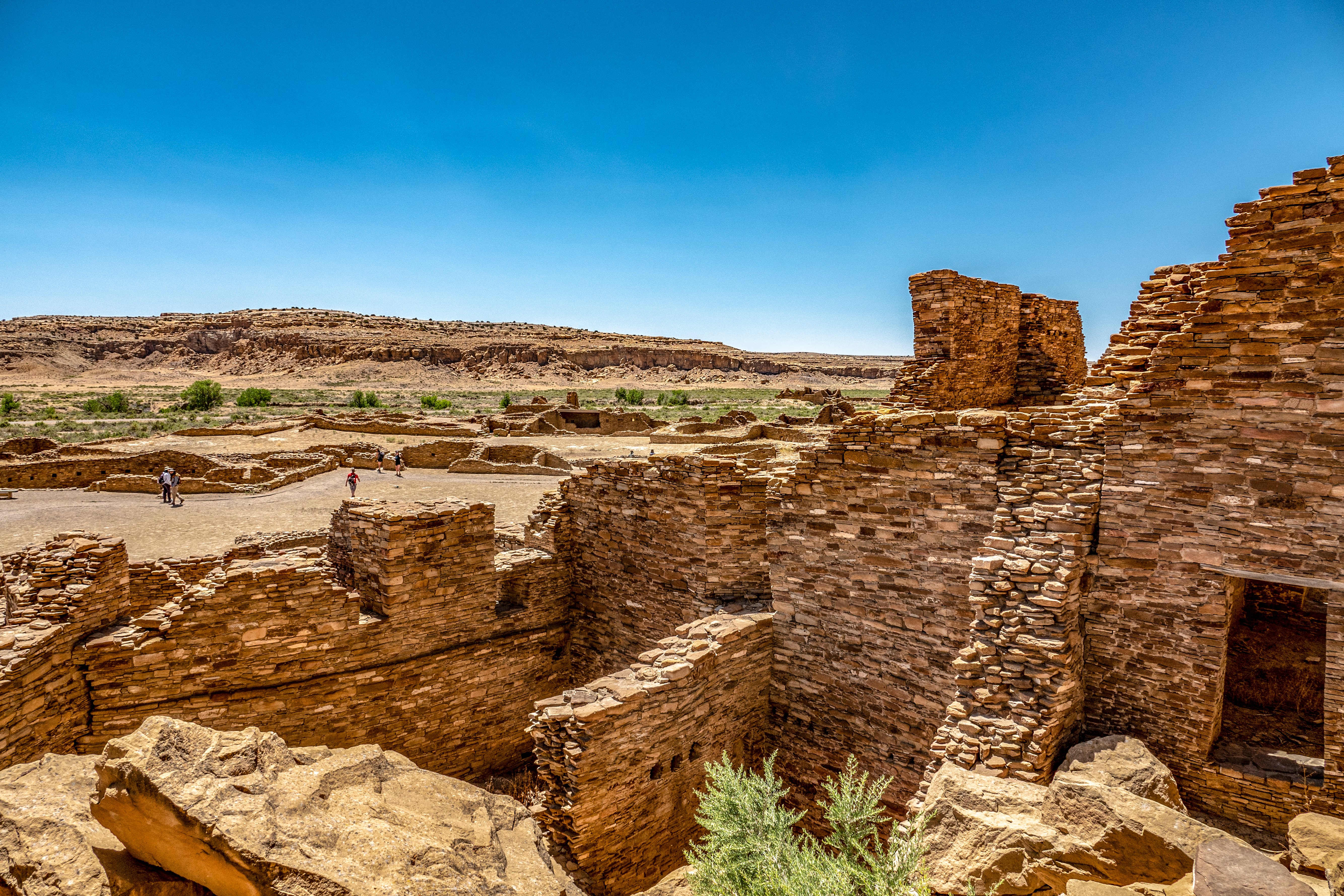 View from above showing Pueblo Bonito Great House, kivas and outdoor areas.